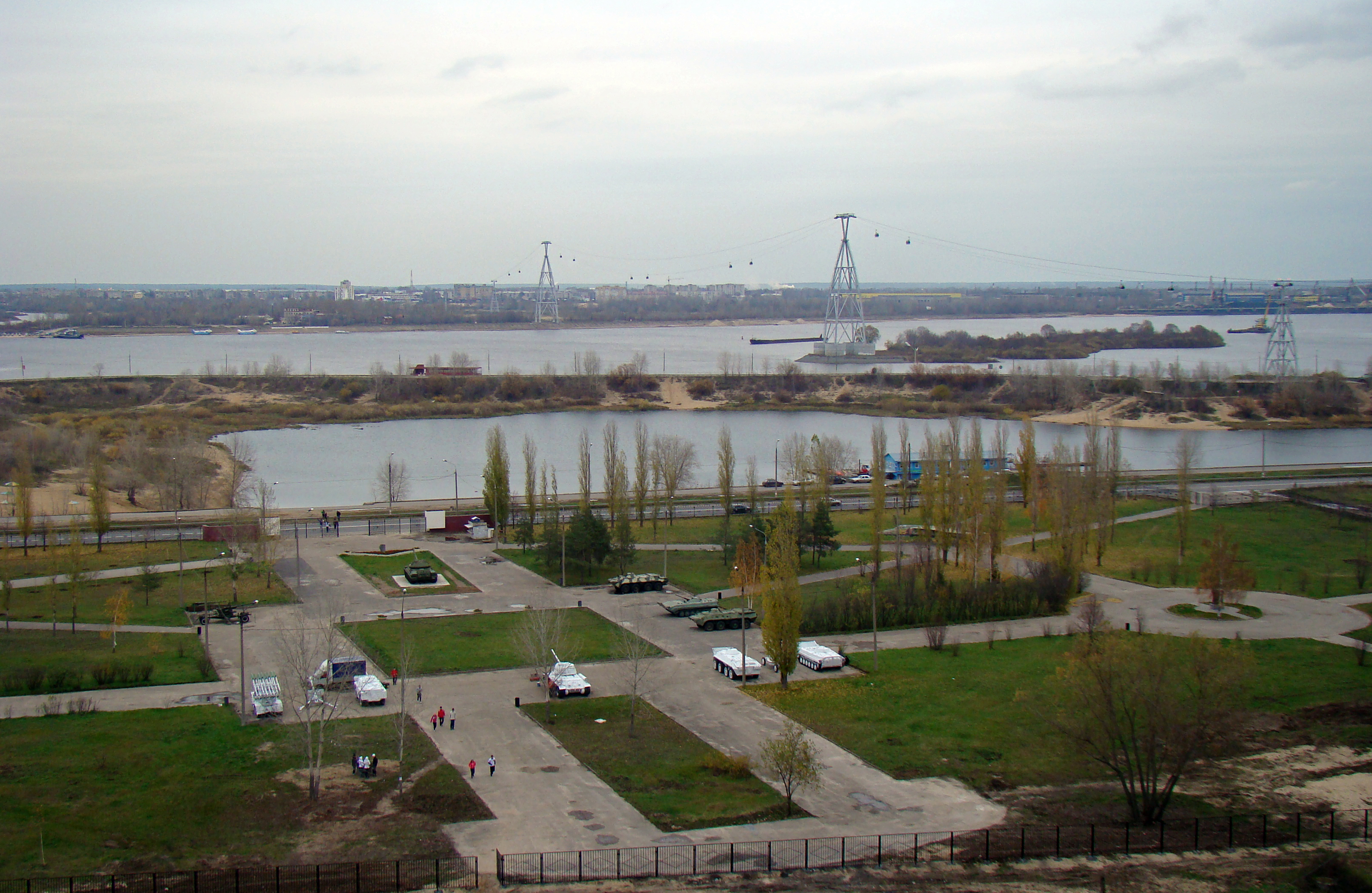 Nizhny Novgorod. View to Volga River and aerial tramway line